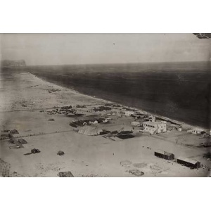 Aerial view of a section of Aluula, Somalia in the 1920s. The area was at the time under the control of the Majeerteen Sultanate, which had a treaty of non-interference with the colonial authorities in Italian Somaliland.